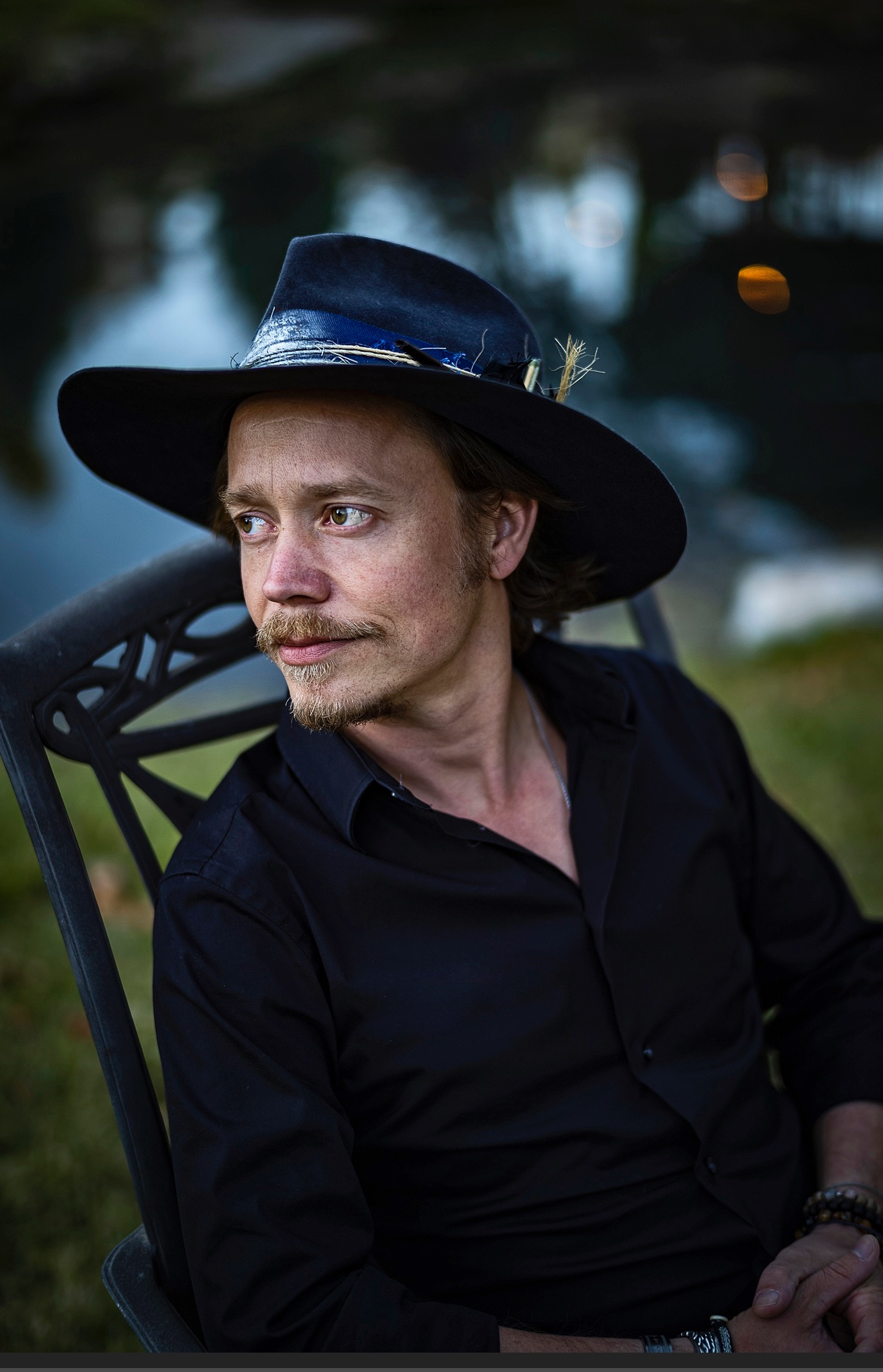 Brock Pierce at the EquityICO Business Summit in Midway, Utah, on October 20, 2018.